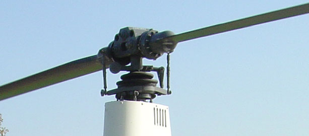 This picture taken by myself, Benet Allen 21:50, 23 December 2005 (UTC)